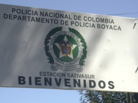 Sativasur Police Department